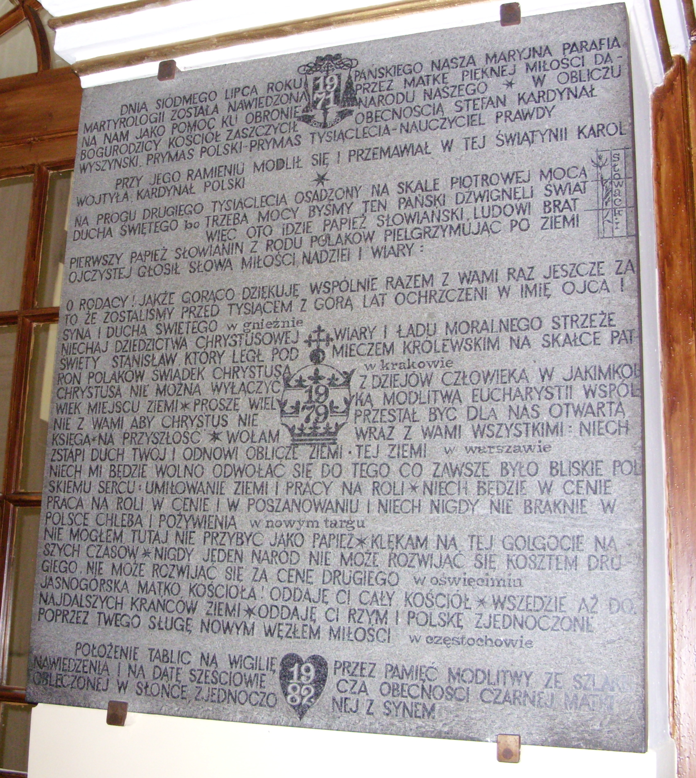 Plaque, a memorial to the visit of priest Cardinal Karol Wojtyla (later Pope John Paul II) and Primate of Poland, Fr. Cardinal Stefan Wyszyński in the parish of Our Lady Queen of Poland in Bełżec, August 7, 1971, during the peregrination of the image of Our Lady of Czestochowa in the sign of the Gospel, candle and empty frame (because Image of Our Lady of Częstochowa was arrested in these years by the authorities of the PRL).